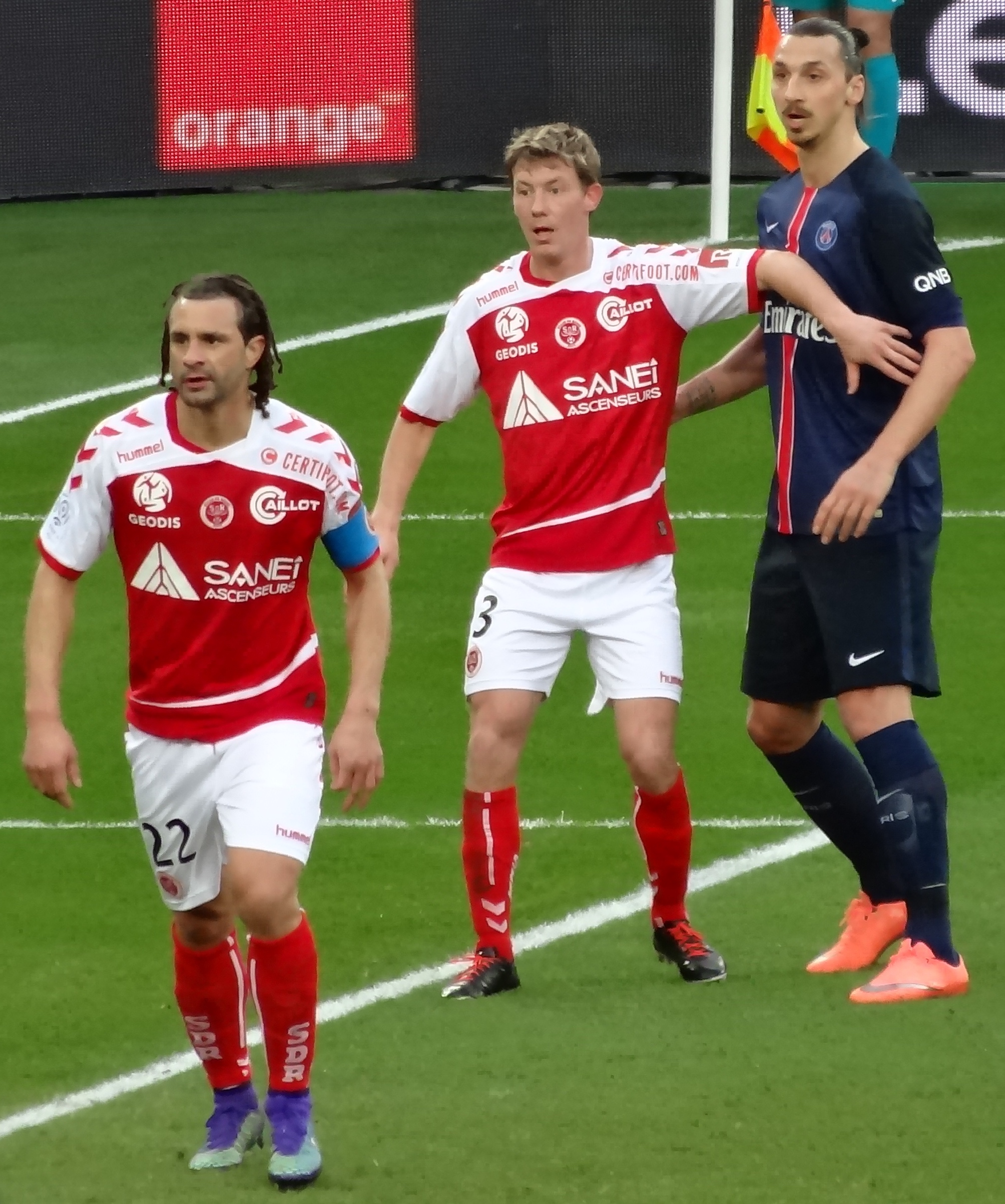 Tacalfred and Signorino vs Ibrahimovic